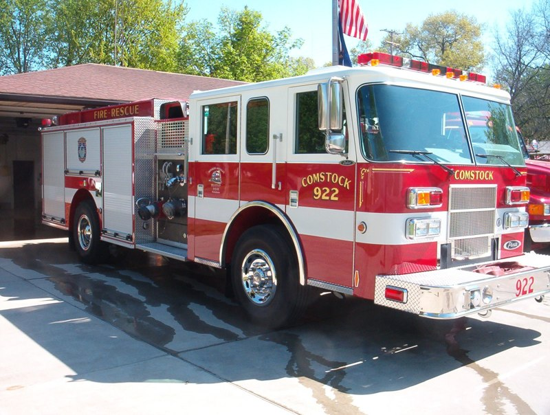 Comstock Fire and Rescue located in Comstock Township near Kalamazoo Michigan